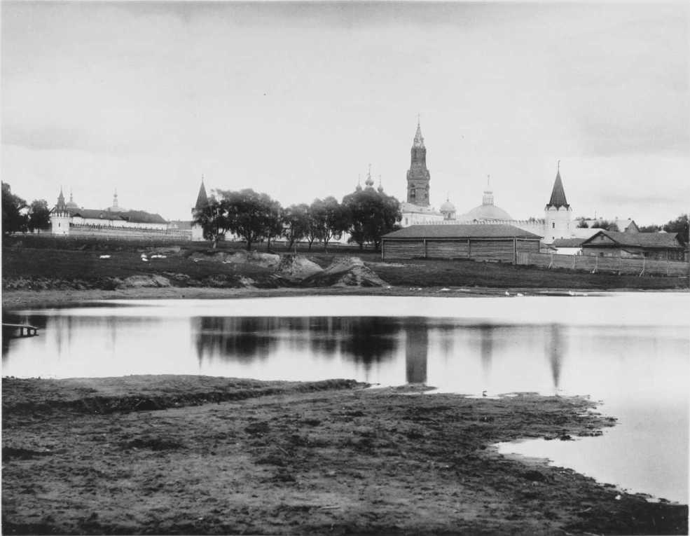 Nikolsky Edinoverie monastery in Moscow. View from south, across Khapilovka pond.